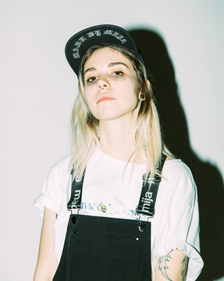 MIJA (DJ)